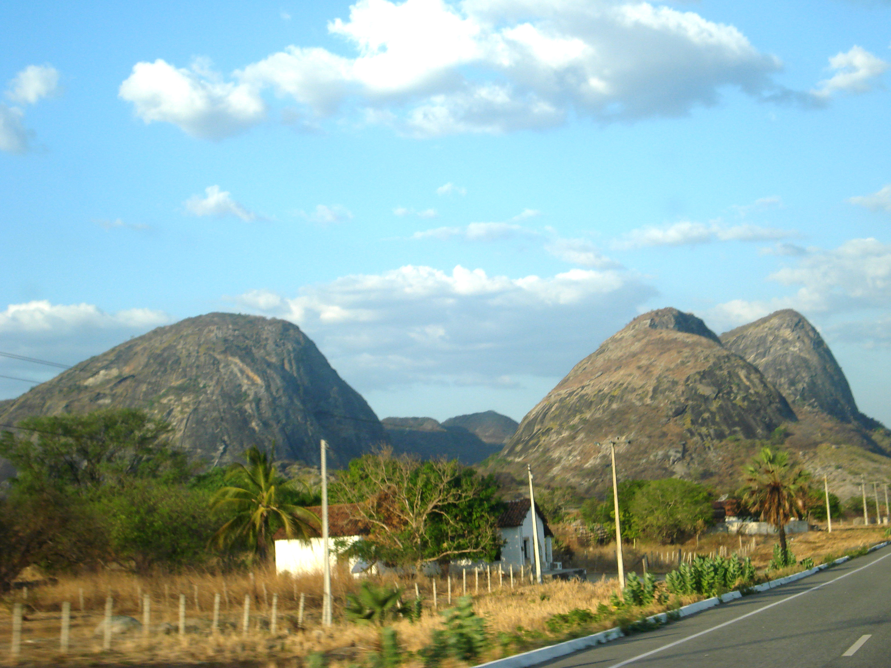 Typical landscape of the Quixadá countrylands.